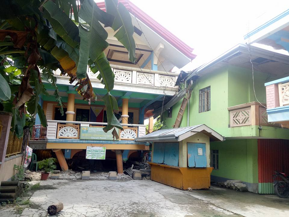 At about 2:00 in the afternoon of August 19, 2020 PCOL JORIZ A CANTORIA, PROVINCIAL DIRECTOR MASBATE PPO together with PMAJ RUSTOM A DELA TORRE, OIC Cataingan MPS and PMAJ RONALD P PASCUA, Force Commander 2nd PMFC conducted ocular inspection to the infrastructures/establishments/residential houses of Cataingan, Masbate that have been damaged due to 6.5 magnitude earthquake that transpired on August 18, 2020 at about 8:03 in the morning.